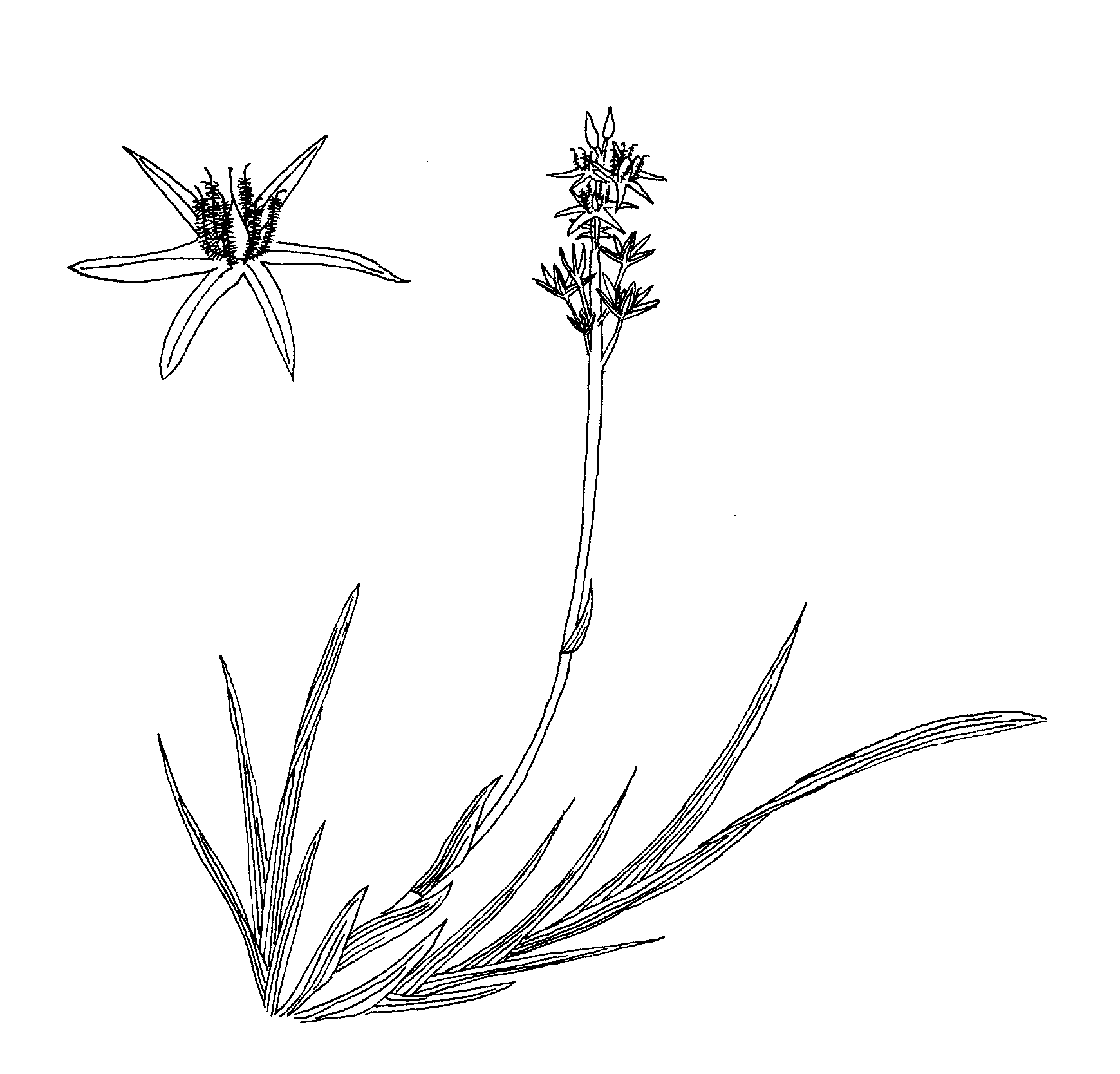 Narthecium ossifragrum nl: Beenbreek Near Rhayader, Wales, UK, August 11, 1977 Pendrawing on paper by Elly Waterman Pentekening op papier door Elly Waterman